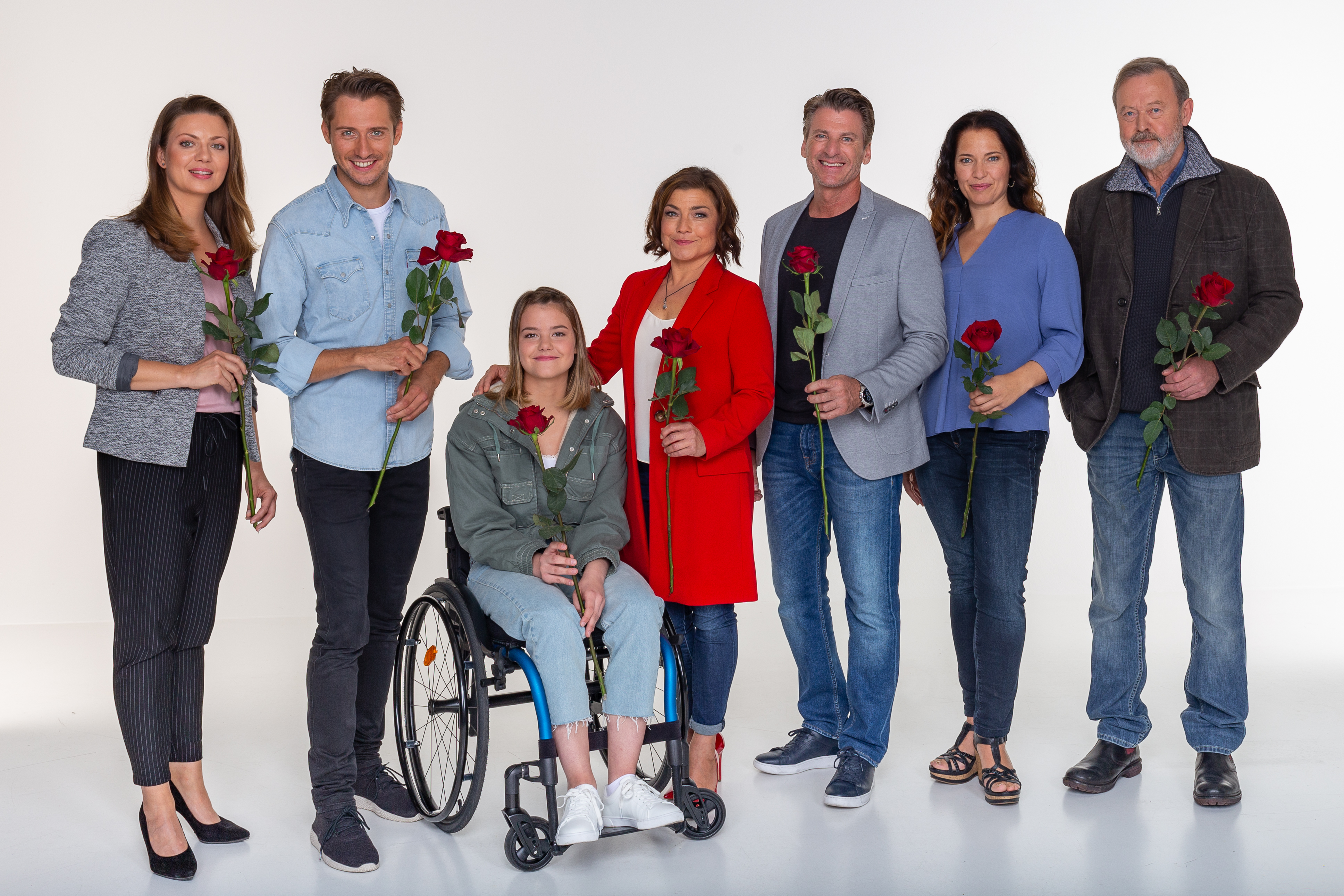 TV, ARD, cast "Rote Rosen"; group picture main cast season 17